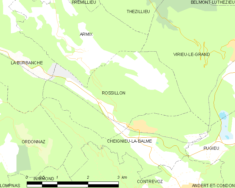 Map of French commune: Rossillon Map commune FR insee code 01329.png